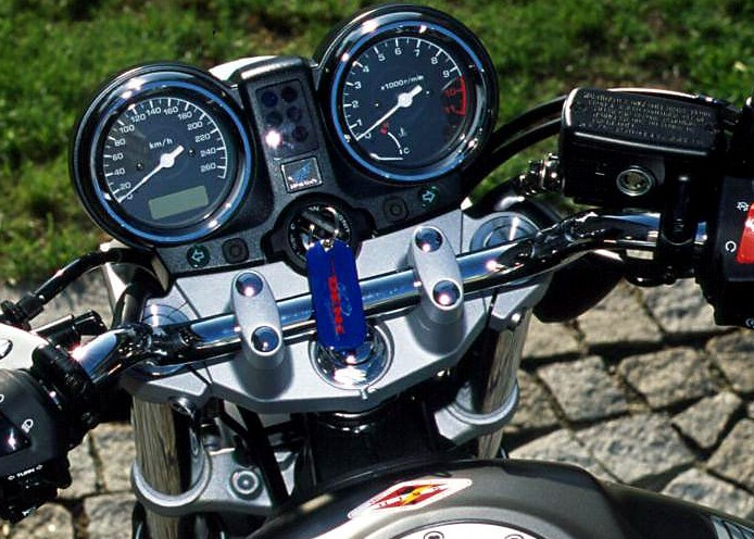 Triple tree and instruments of Honda Hornet 900